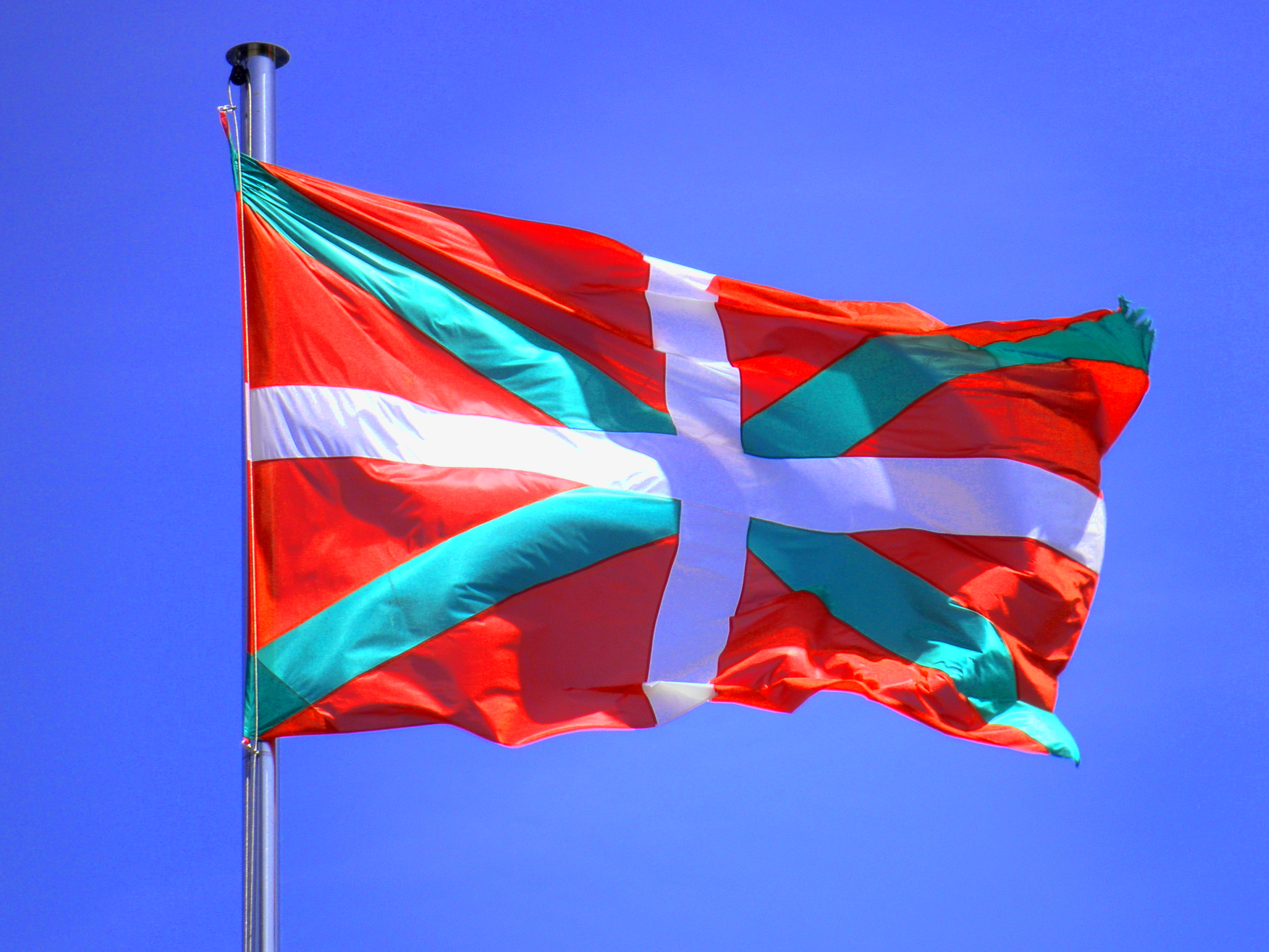 Ikurrina (Basque Flag), Urgull, Donostia-San Sebastian. Gipuzkoa, Basque Country.